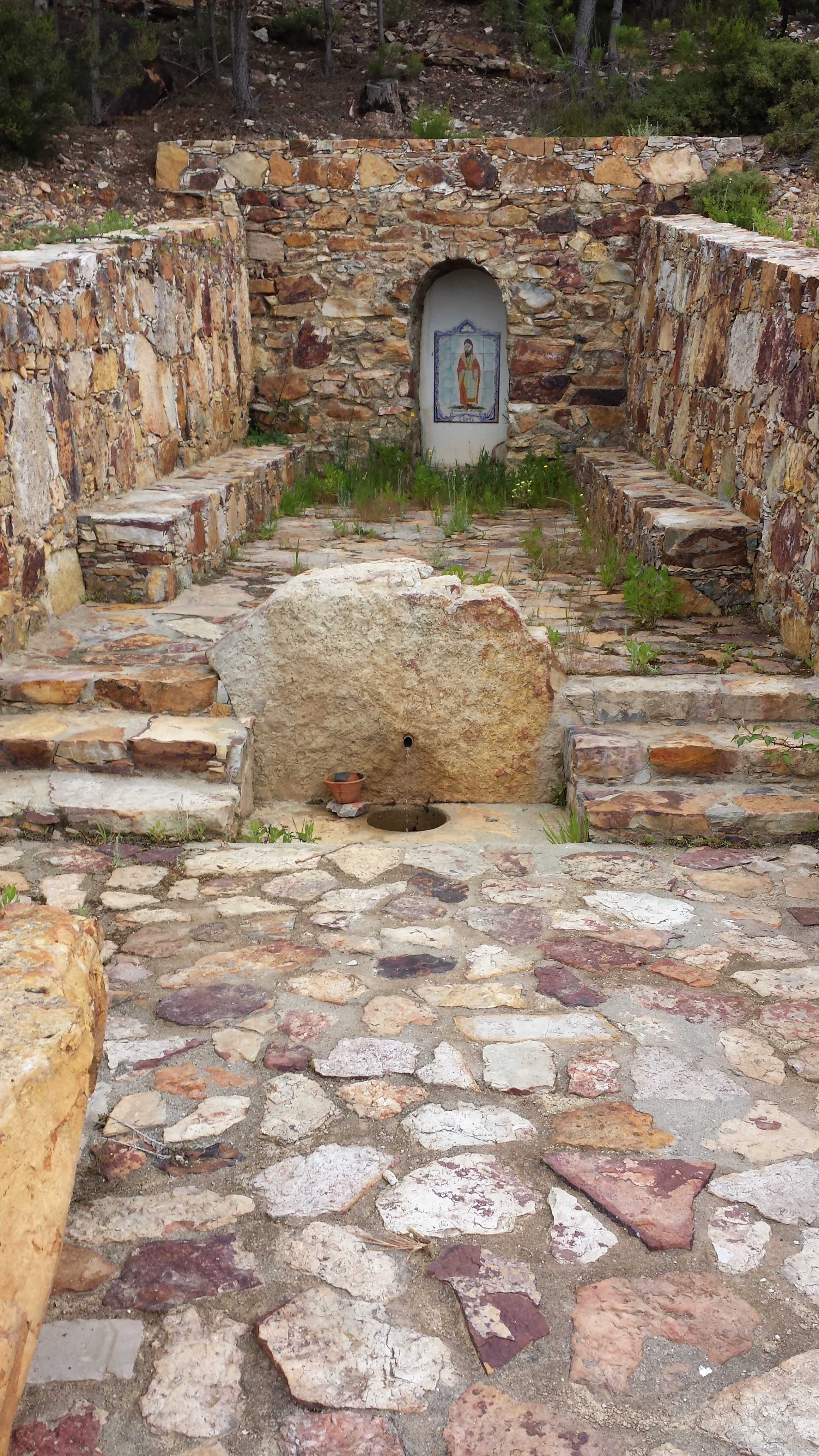 Fountain of São Gens.